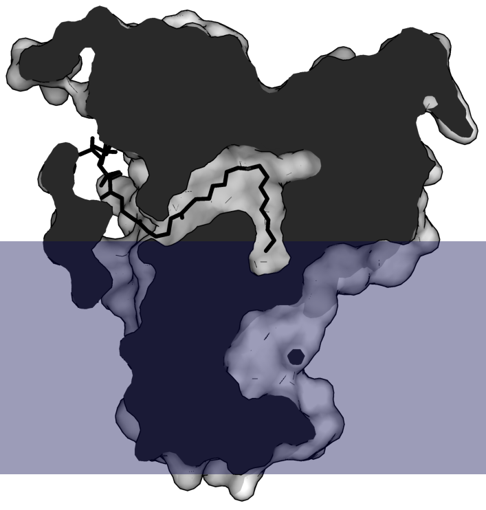 Stearoyl-CoA desaturase-1 bound to its substrate, Stearoyl–coA (black). The substrate is held in a kinked conformation by the binding pocket which determines which bond is desaturated by the catalytic centre. The enzyme is embedded in the membrane of the endoplasmic reticulum by four transmembrane helices. (PDB: 4ZYO​)